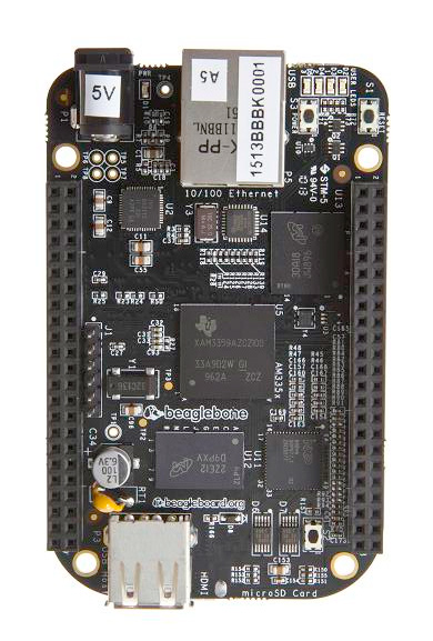 Picture of BeagleBone Black found on